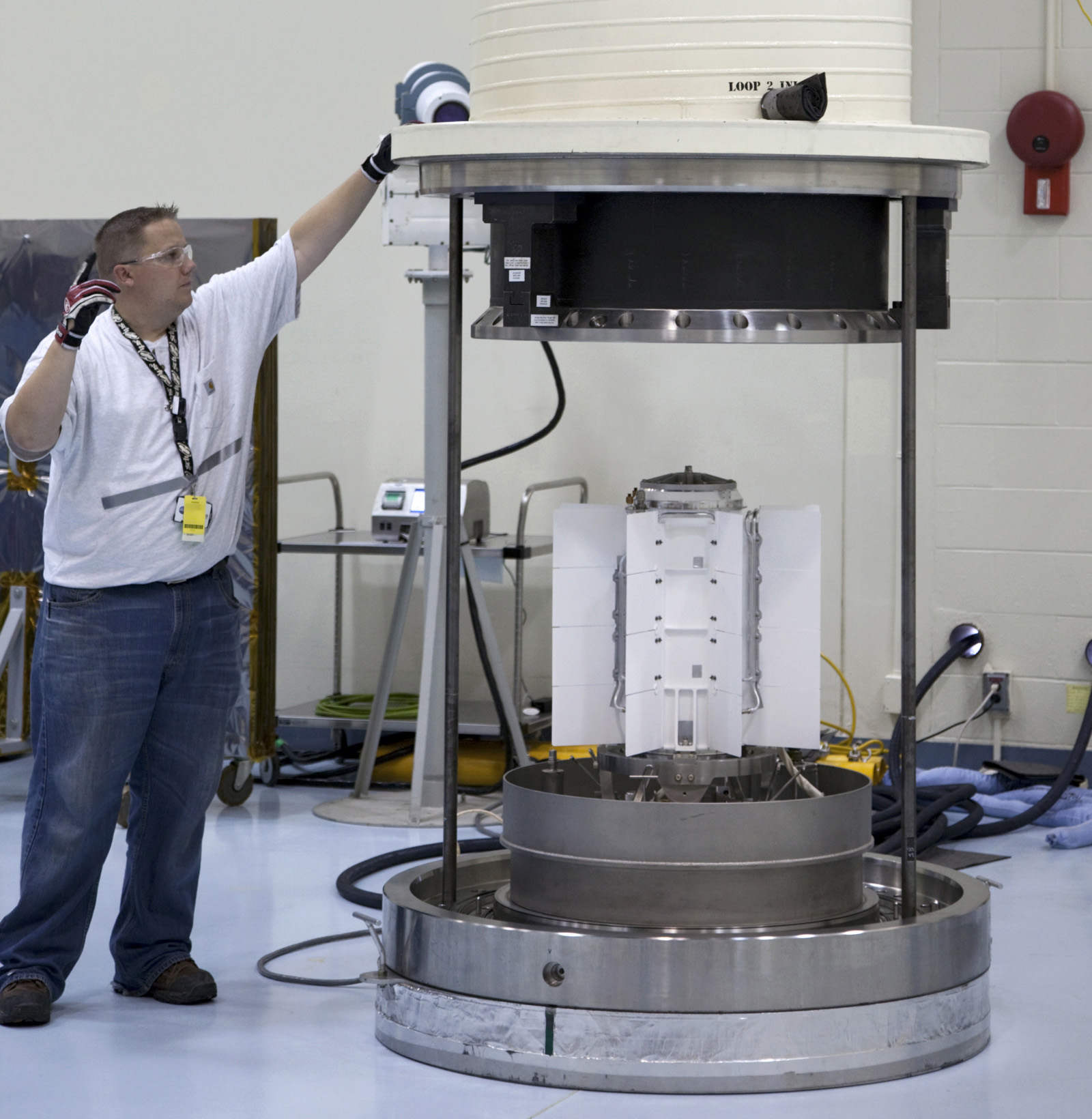 CAPE CANAVERAL, Fla. -- In the high bay of the RTG storage facility at NASA's Kennedy Space Center in Florida, a Department of Energy contractor employee guides the external and internal protective layers of the shipping cask as they are lifted from around the multi-mission radioisotope thermoelectric generator (MMRTG) for NASA's Mars Science Laboratory mission. The MMRTG no longer needs supplemental cooling since any excess heat generated can dissipate into the air in the high bay. The MMRTG will generate the power needed for the mission from the natural decay of plutonium-238, a non-weapons-grade form of the radioisotope. Heat given off by this natural decay will provide constant power through the day and night during all seasons. Waste heat from the MMRTG will be circulated throughout the rover system to keep instruments, computers, mechanical devices and communications systems within their operating temperature ranges. MSL's components include a compact car-sized rover, Curiosity, which has 10 science instruments designed to search for evidence on whether Mars has had environments favorable to microbial life, including chemical ingredients for life. The unique rover will use a laser to look inside rocks and release its gasses so that the rover’s spectrometer can analyze and send the data back to Earth. Launch of MSL aboard a United Launch Alliance Atlas V rocket is scheduled for Nov. 25 from Space Launch Complex 41 on Cape Canaveral Air Force Station in Florida. For more information, visit